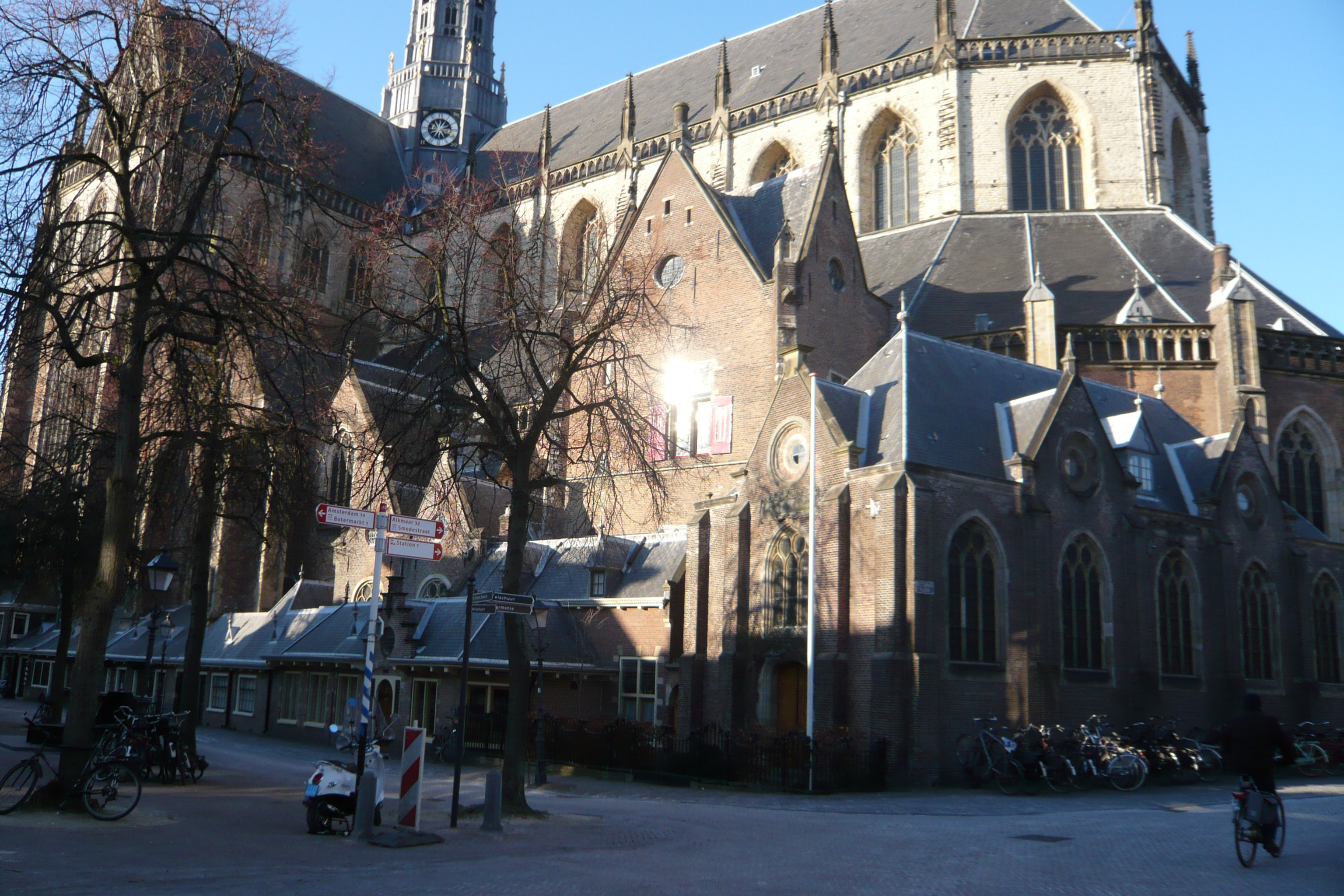 St. Bavochurch from the Oude Groenmarkt. On the right is the consistory added in 1630 by Salomon de Bray